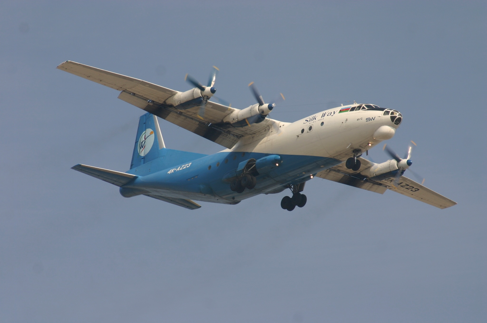 At Dubai